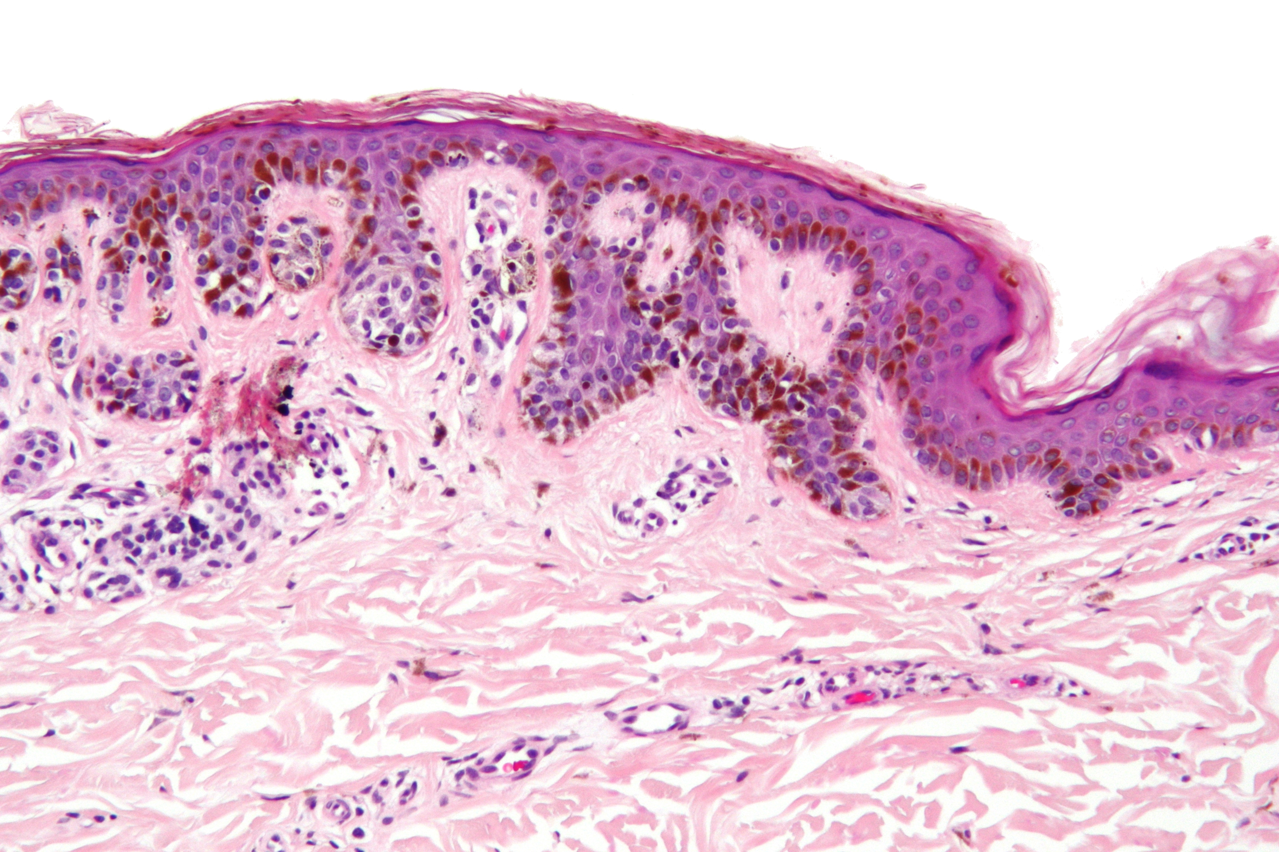 High magnification micrograph of a dysplastic nevus, also known as a Clark's nevus and dysplastic melanocytic nevus. H&E stain. The images show the characteristic features: Rete ridge bridging - at their sides. Drapping fibrous tissue over the rete ridges (lamellar fibrosis). Moderate nuclear atypia - nucleoli. Junctional component larger than intradermal component (shoulder phenomenon). Related images Low mag. Intermed. mag. High mag. Very high mag. High mag. Very high mag.